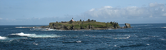 Tatoosh Island is located .5 miles off the shore of Cape Flattery, the northwestern most point on the Olympic Peninsula in Washington State. It is north of Flattery Rocks National Wildlife Refuge. Credit: Caroline Peterschmidt